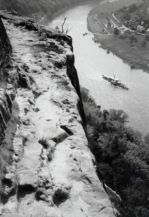 View from the trail “Rahmhanke” beneath the Bastei rocks to Elbe ferry in Rathen (Saxon Switzerland, Germany)